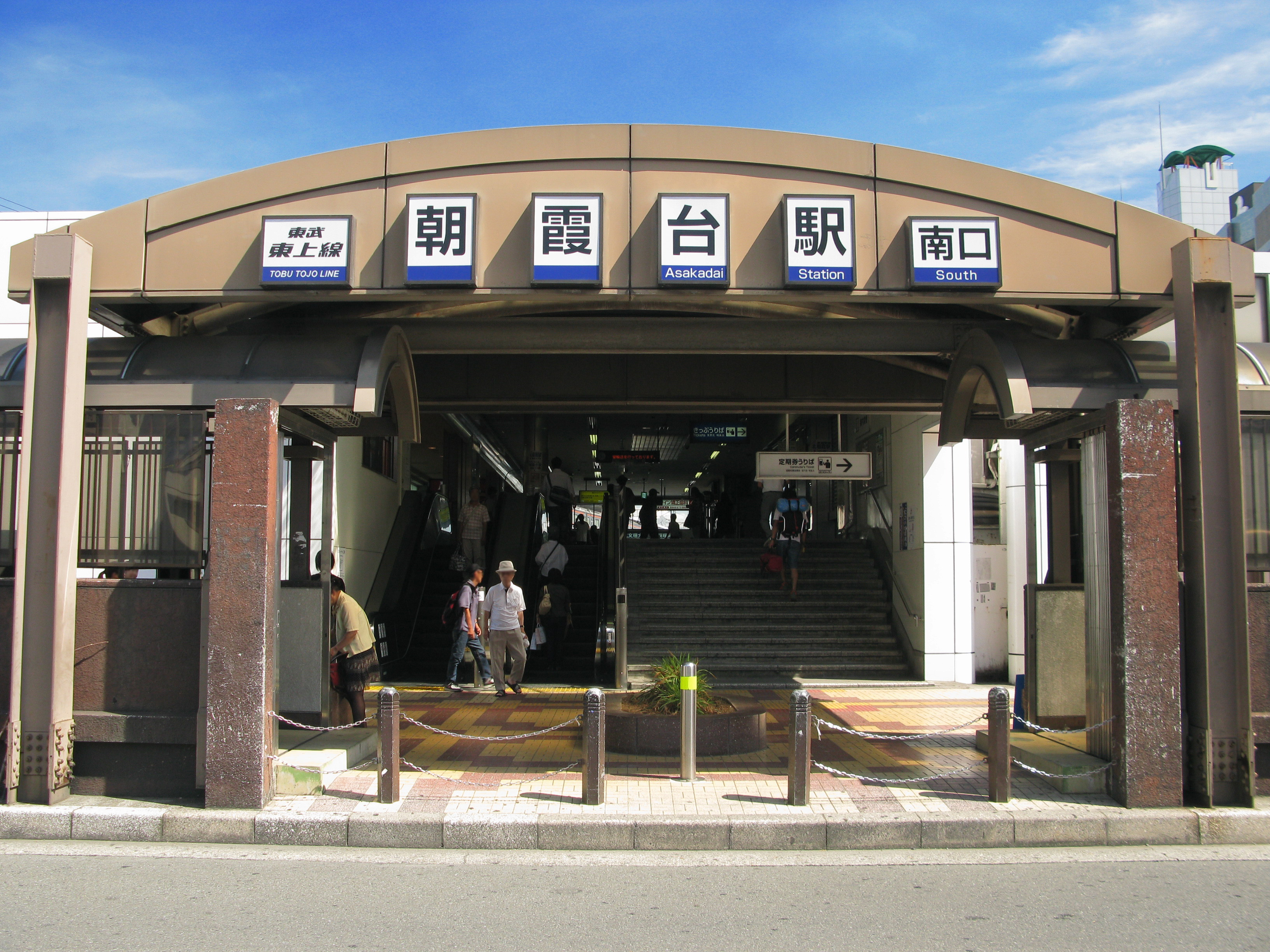 South entrance of Asakadai Station on the Tobu Tojo Line